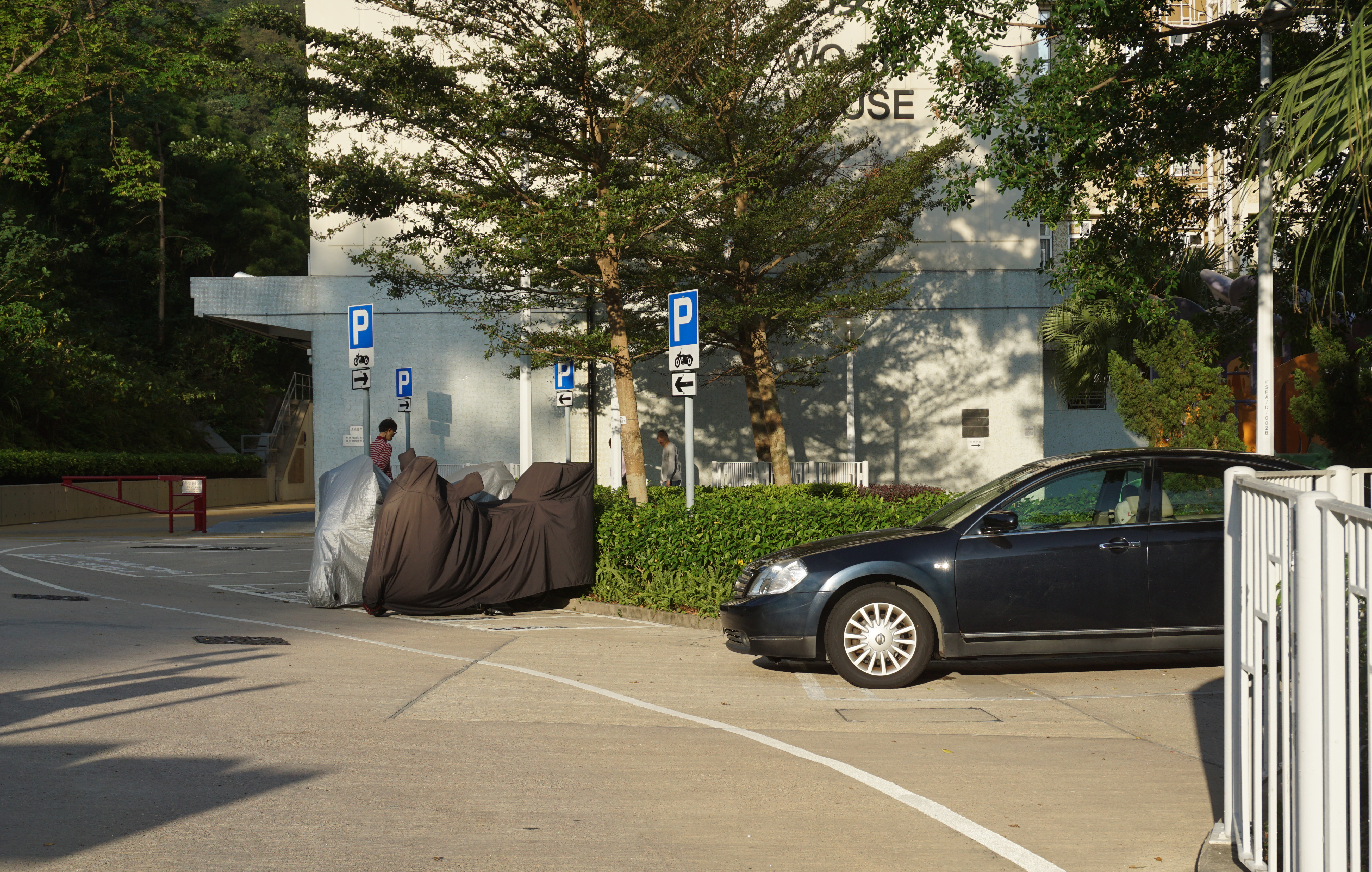 Shatin Pass Estate in Tsz Wan Shan, Hong Kong.